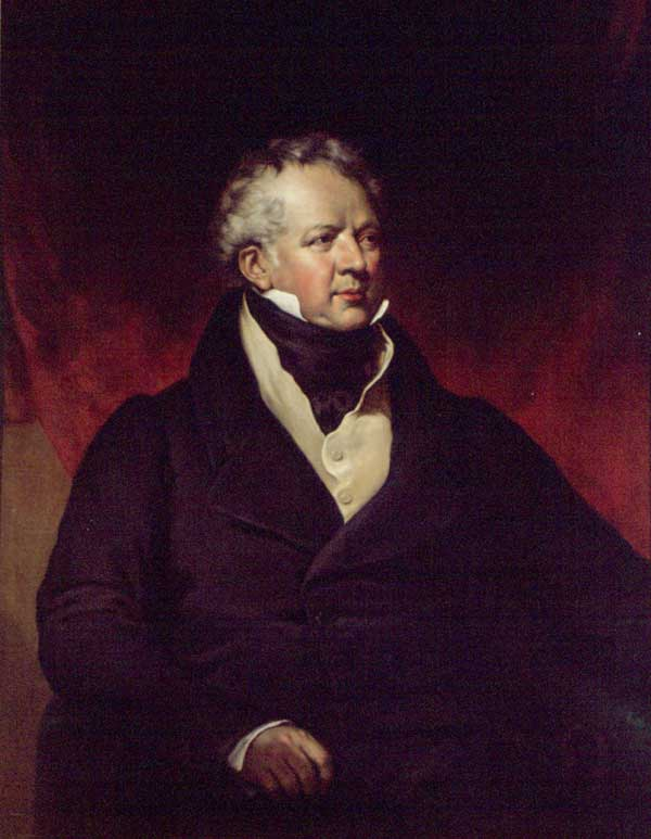 Francis Gore [Lieutenant Governor of Upper Canada, 1806-11; 1815-17]